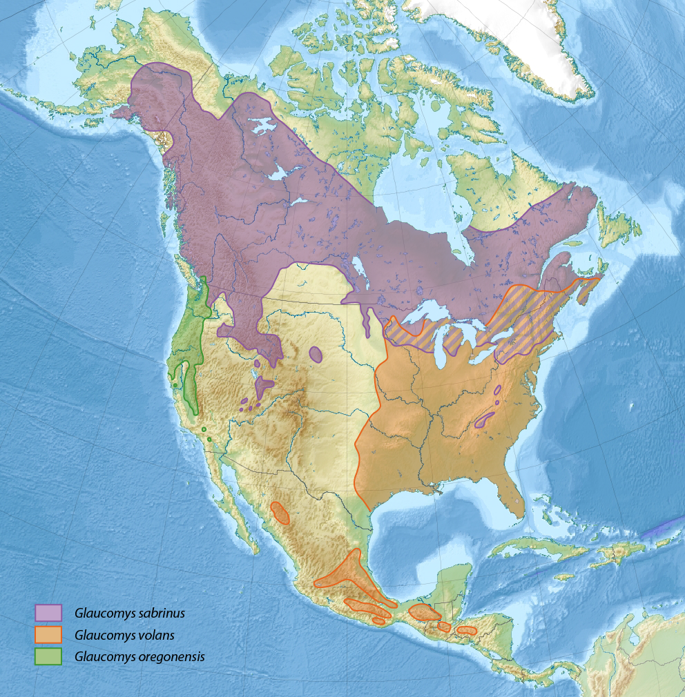 Distribution map of the New World flying squirrel